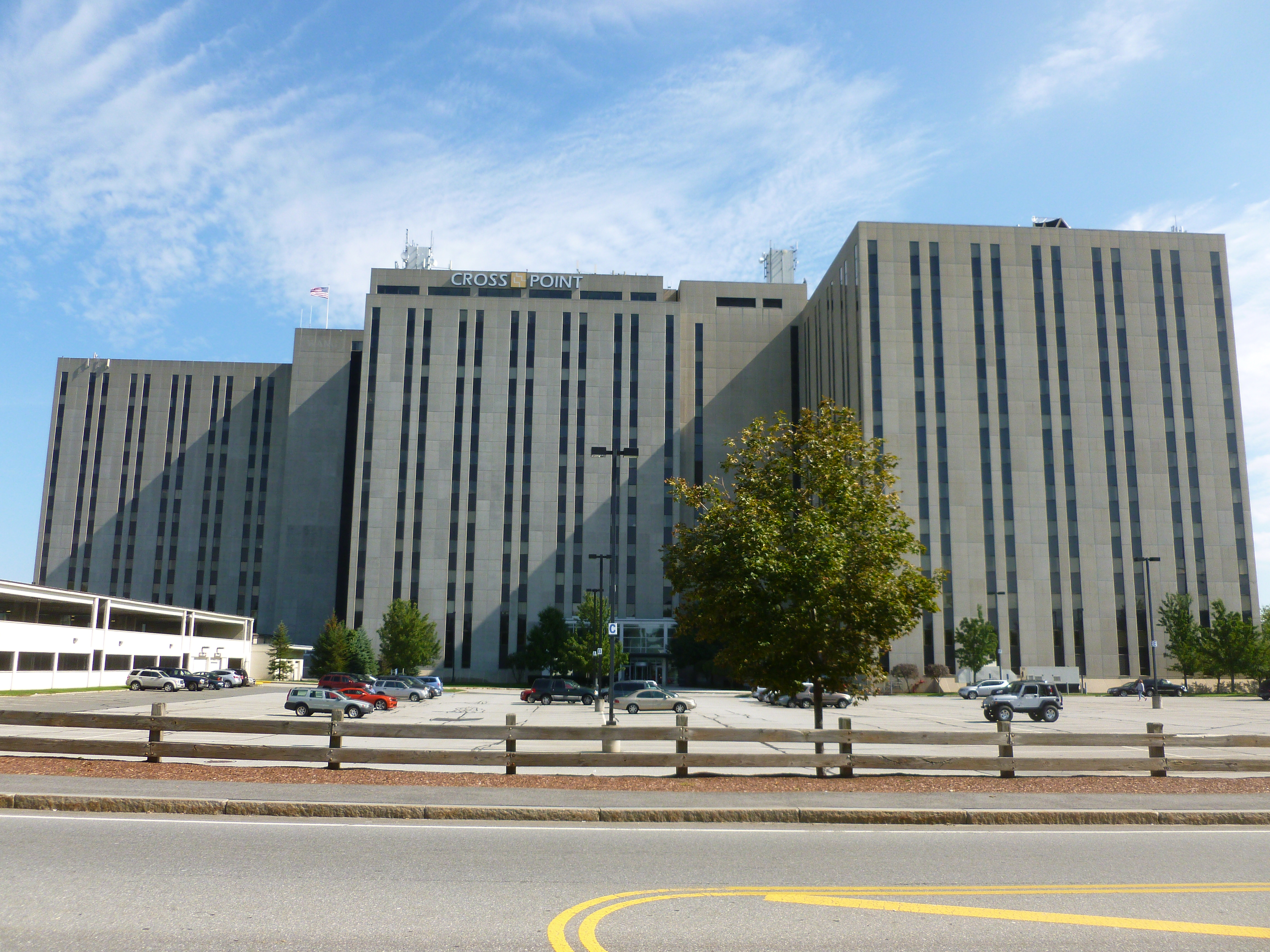 Cross Point Towers, located at 900 Chelmsford Street, Lowell, Massachusetts. Northeast side of building shown.